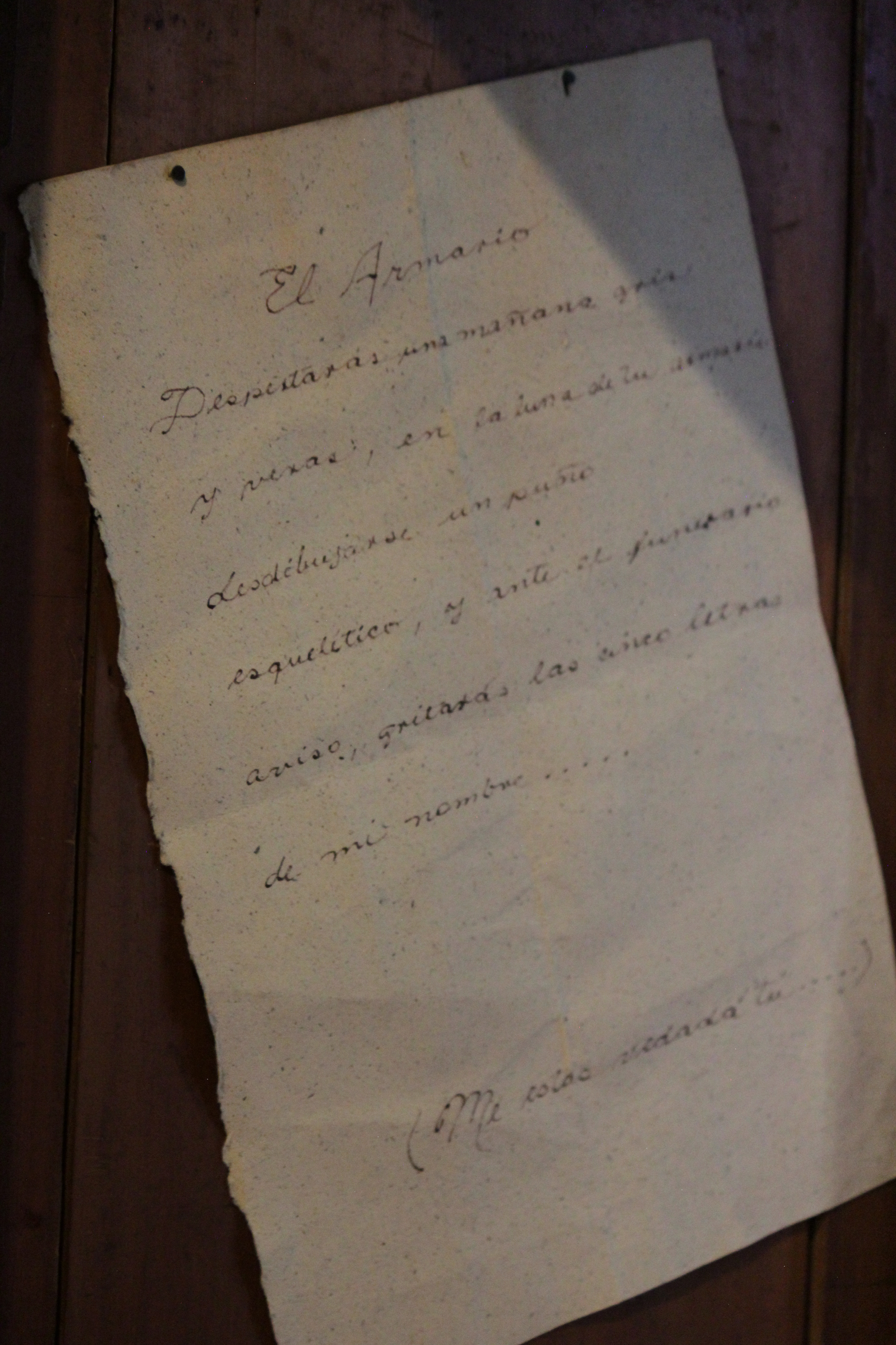 Note written by Ramón López Velarde, hanged on the wall in the Museum Casa del Poeta Ramón López Velarde located in Col. Roma, Mexico City.